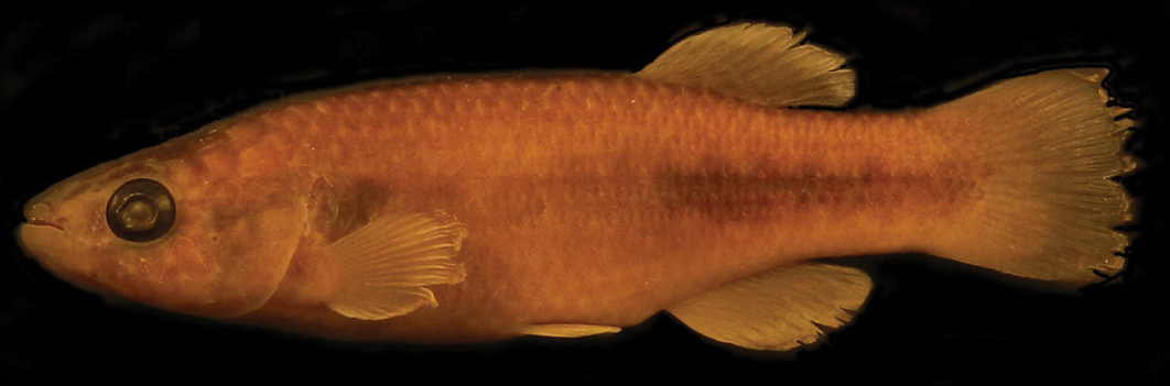 Profundulus kreiseri, USM 39022, holotype, 53.2 mm SL, Río Chamelecón, Honduras.